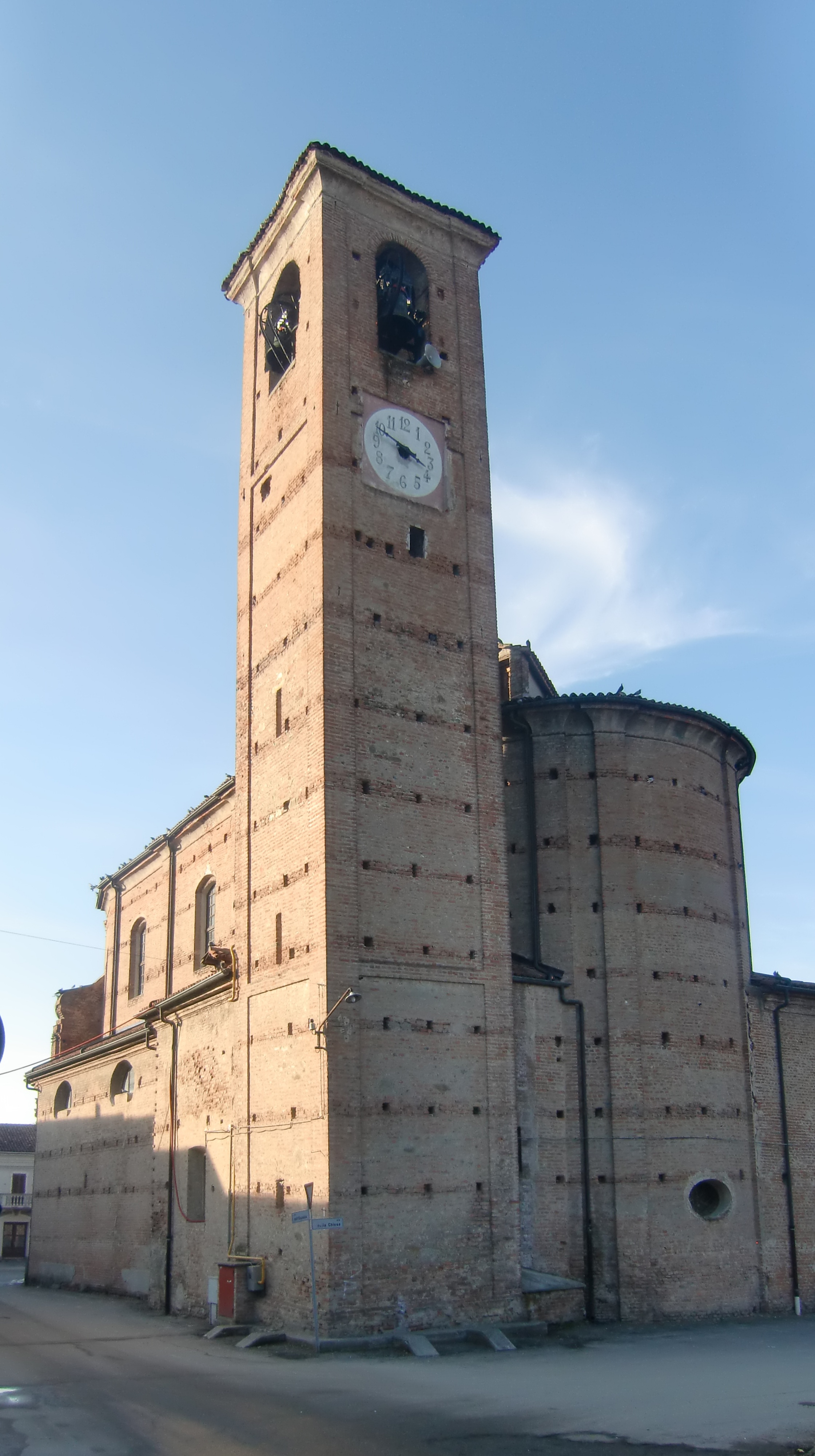 Brusasco (TO), Parish church dedicated to Saints Peter and Paul, apse and clock-tower, XVIII century